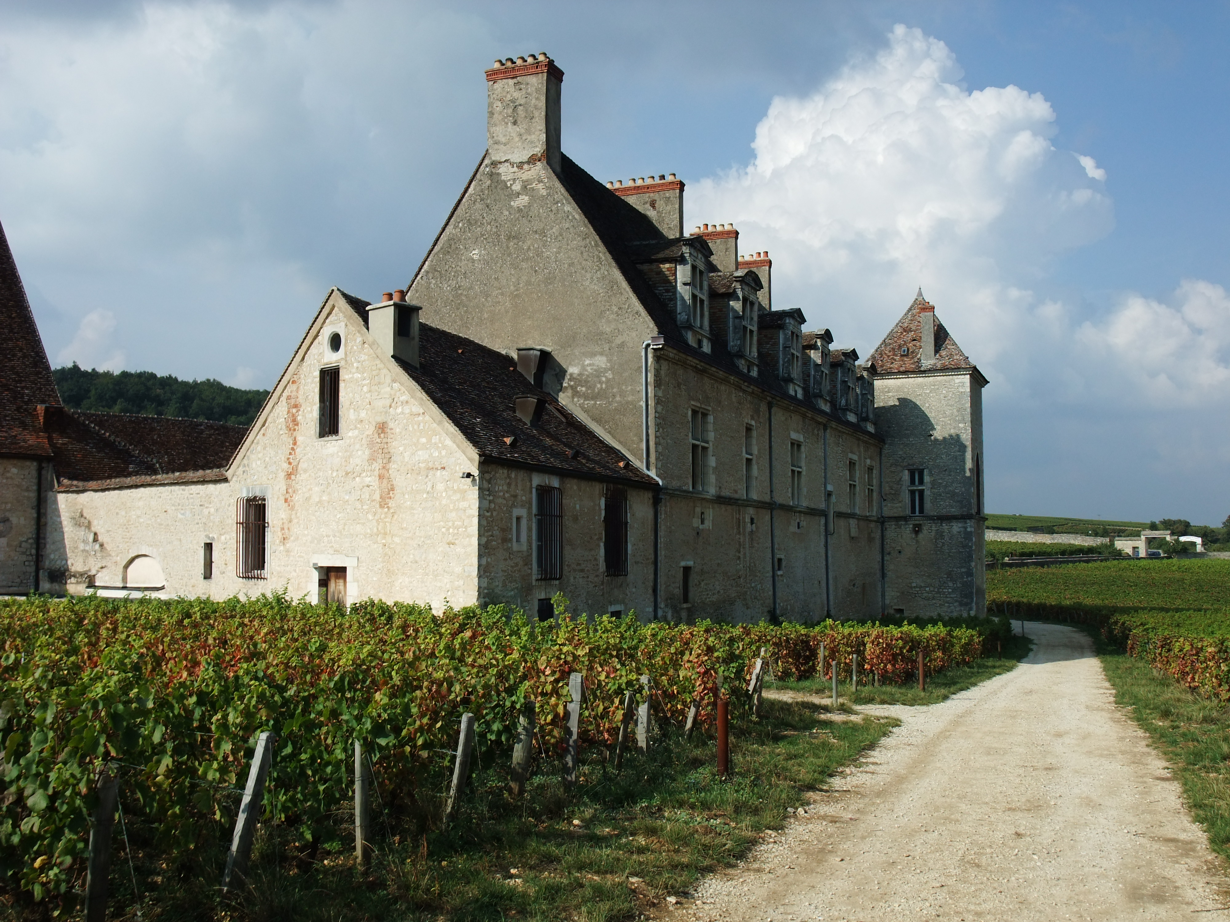 Chateau du Clos de Vougeot in Burgundy, France